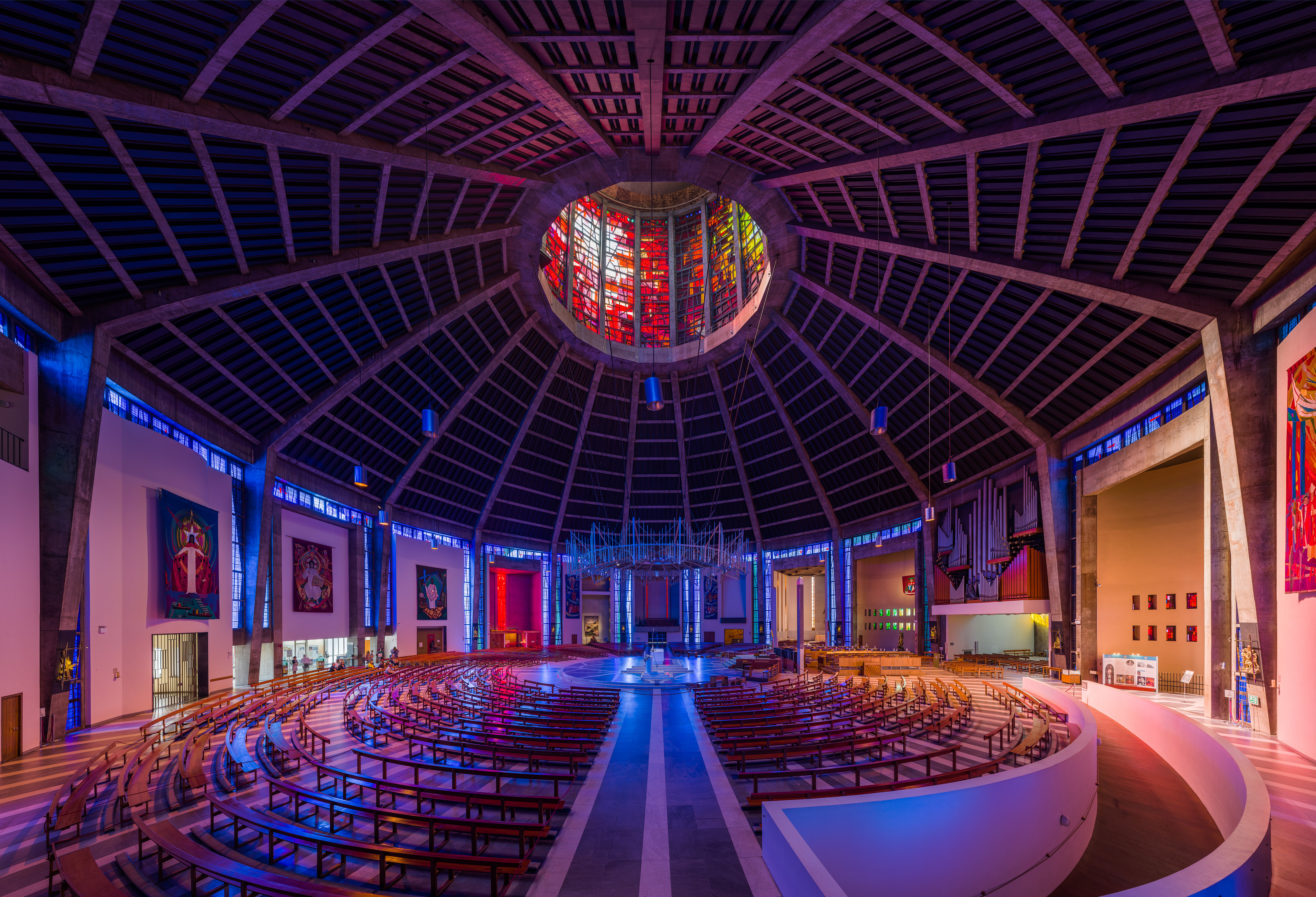 The interior of Liverpool Metropolitan Cathedral viewed from a raised seating area.